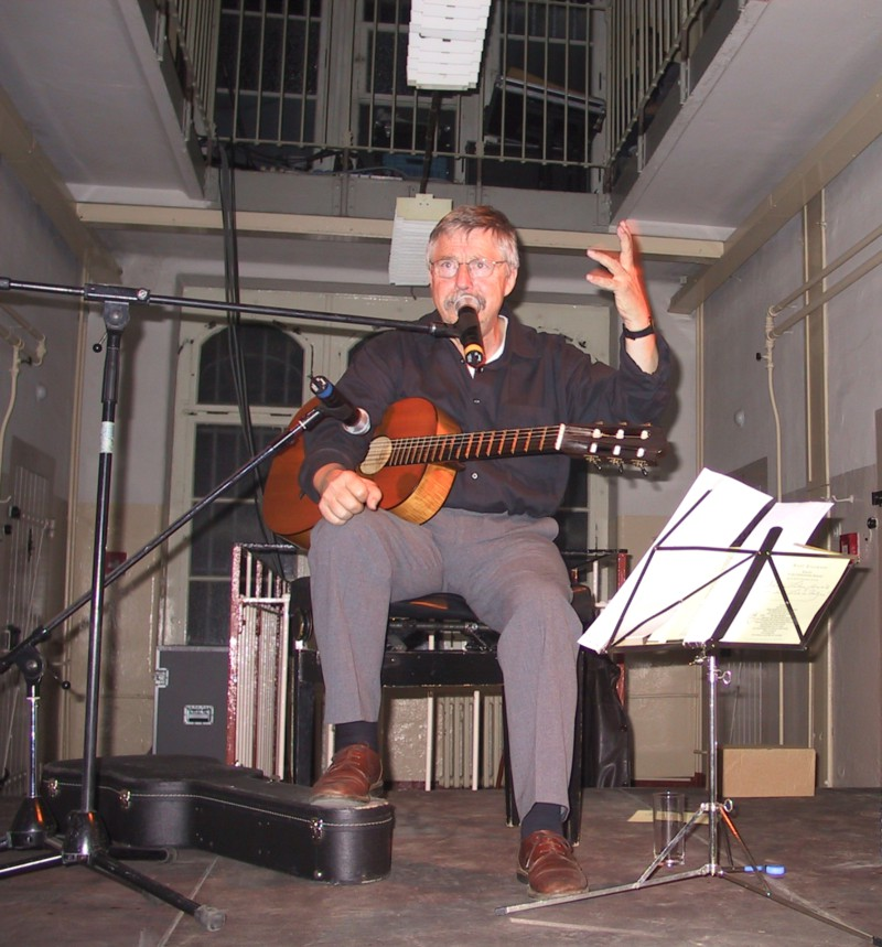 Konzert von Wolf Biermann in der Gedenkstätte Bautzen, 2002